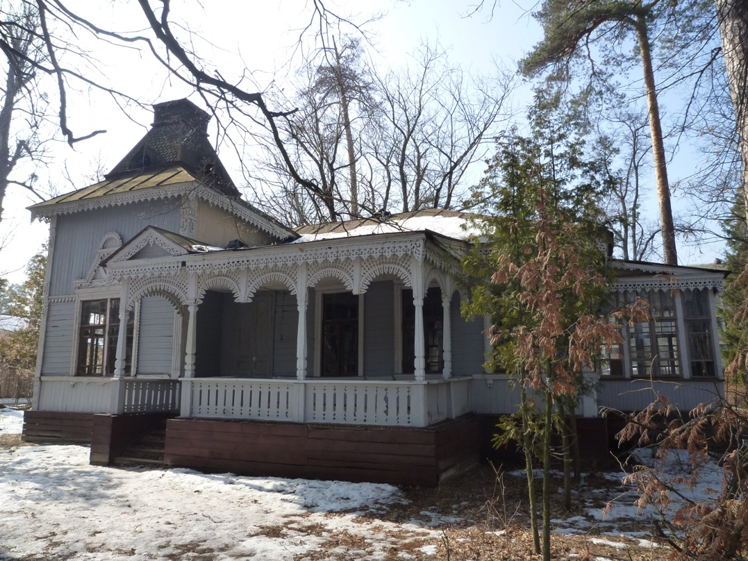 Former dacha in 9 Chervonoflotska Street, Pushcha-Vodytsia, Kyiv, Ukraine